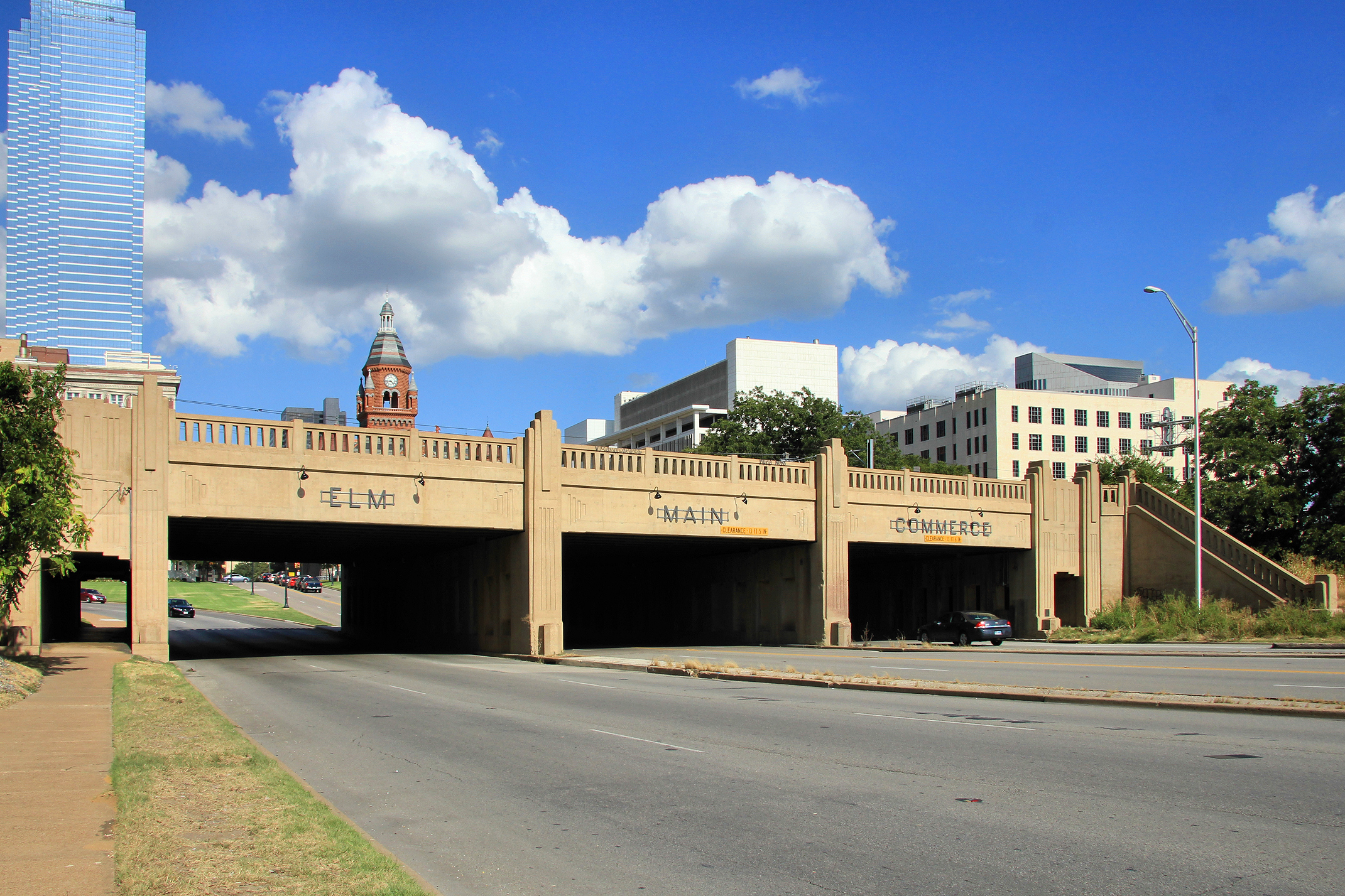 The Union Terminal Company Underpass, also called the Triple Underpass, in Dallas, Texas, United States. John F. Kennedy's motorcade was due to go through the underpass before Kennedy was shot in Dealey Plaza on the other side of the bridge.